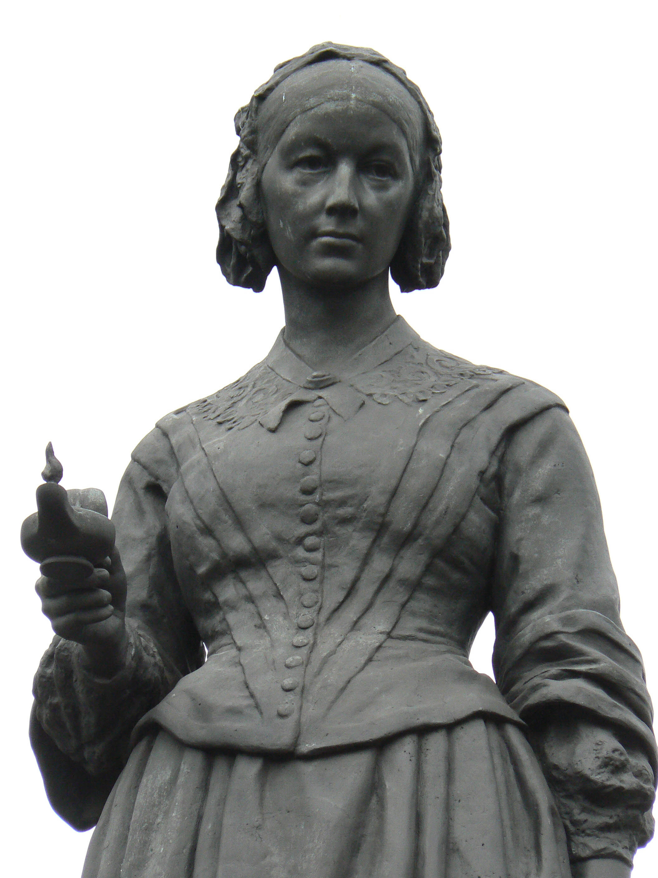 Statue of Florence Nightingale by Arthur George Walker. The statue is in Waterloo Place, London SW1.